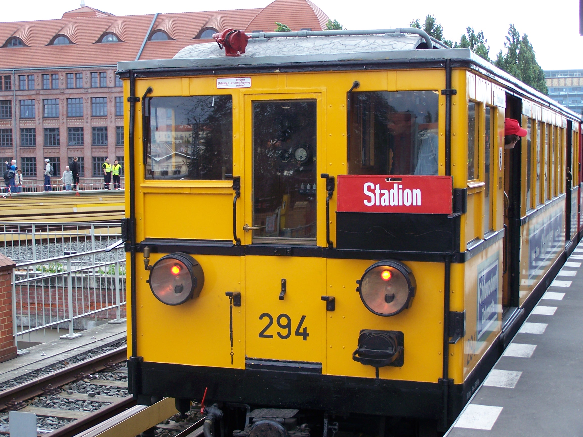 the Berlin underground train type AI at the station Warschauer Straße during "Day Of The Open Monument 2007"